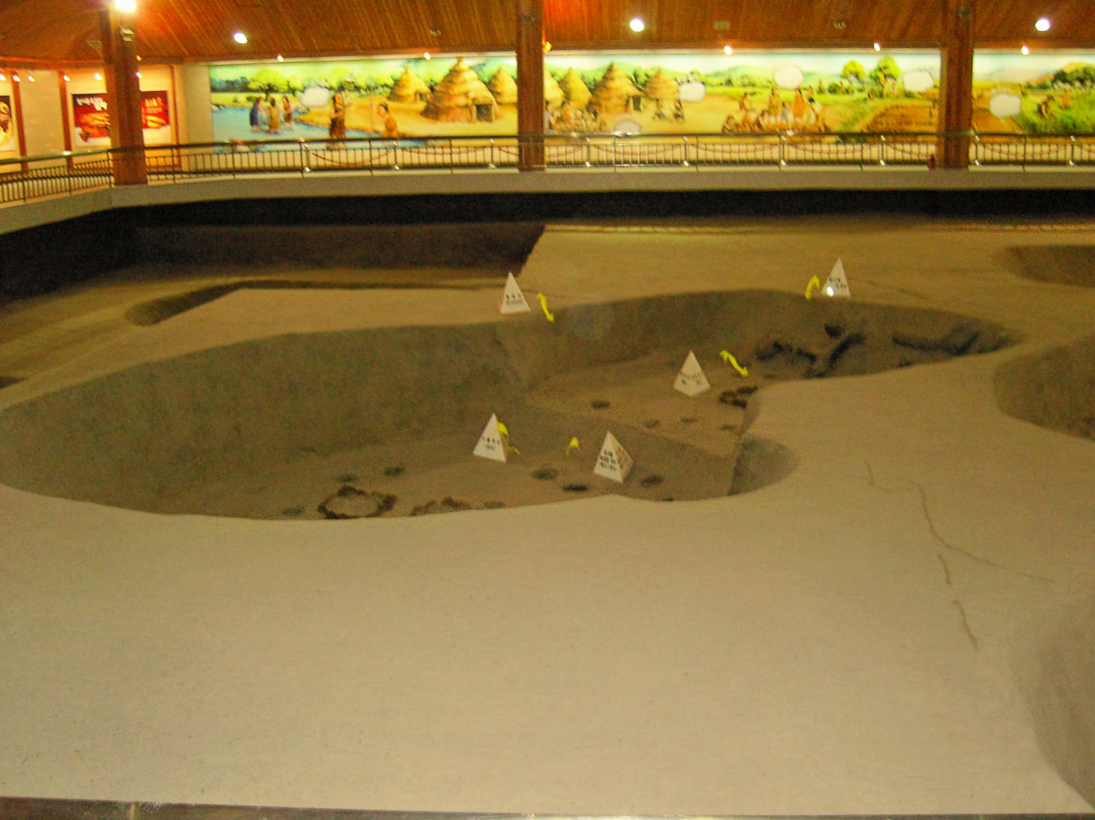 Amsadong Prehistoric Settle Site, Kangdonggu, Seoul